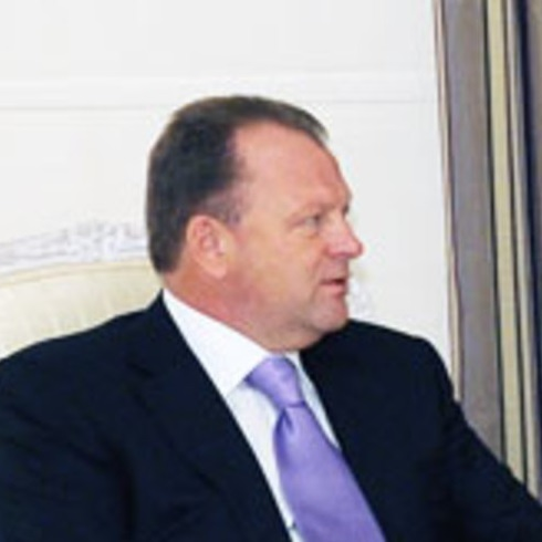 Ilham Aliyev received President of the International Judo Federation, Marius Vizer